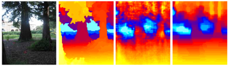 Deepth map for an image